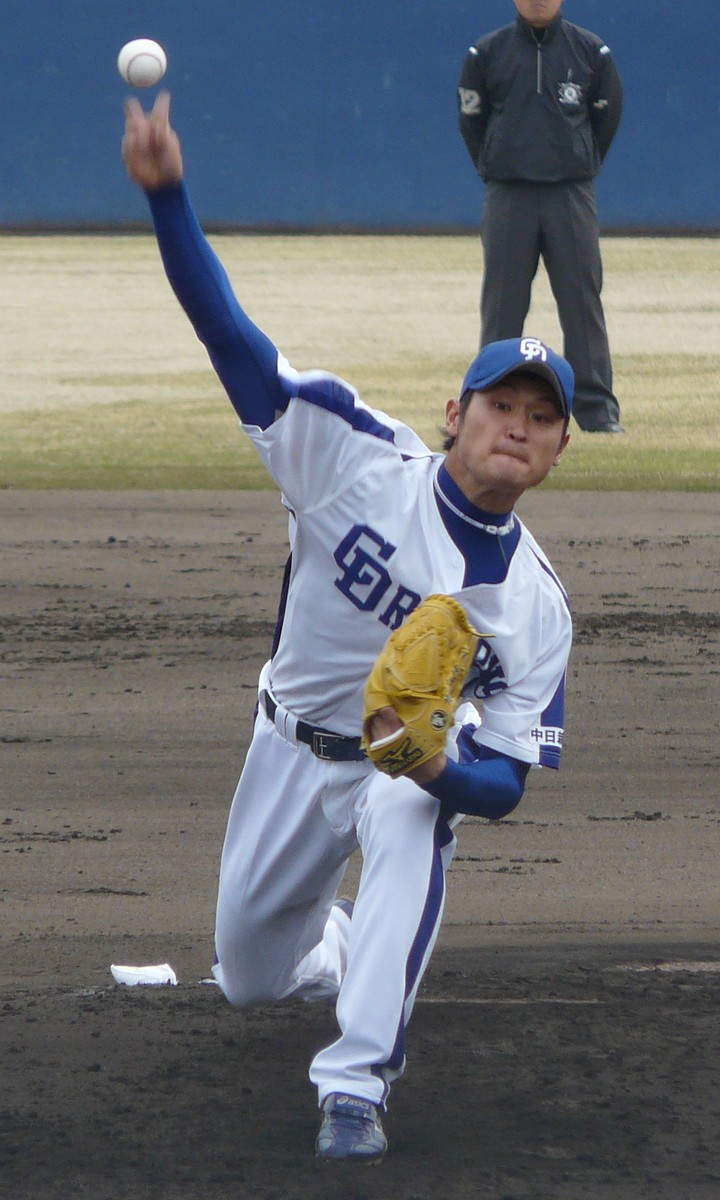 Kenichi Nakata, pitcher of the Chunichi Dragons, at Nagoya Baseball Stadium.